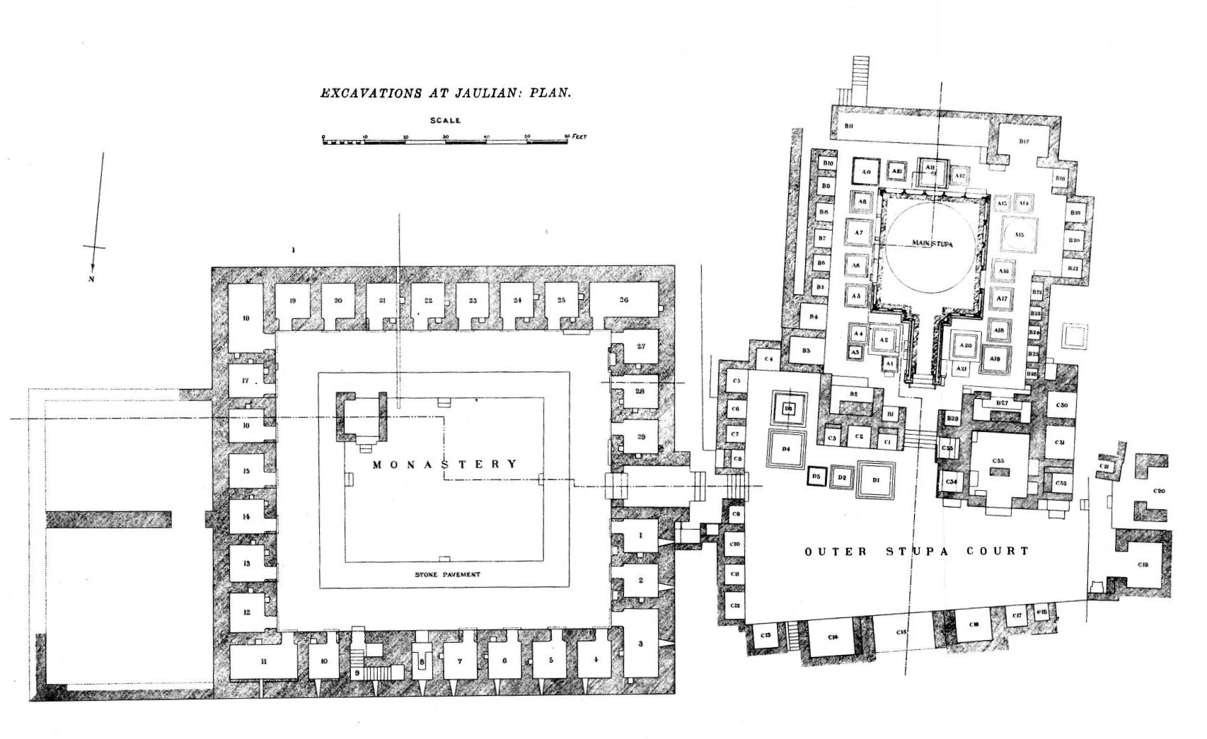 Jaulian monastery plan